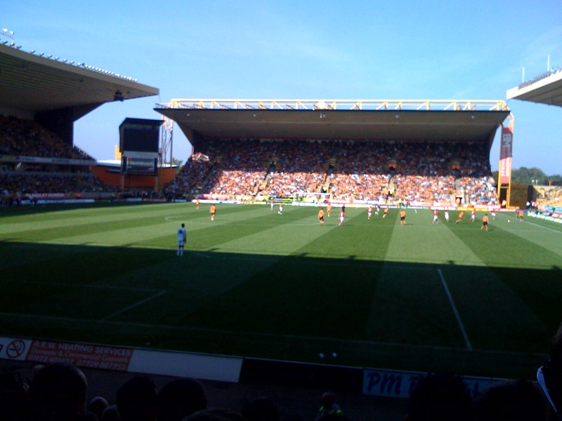 Molineux Stadium receiving the game Wolverhampton Wanderers 2-0 Bristol City F.C.